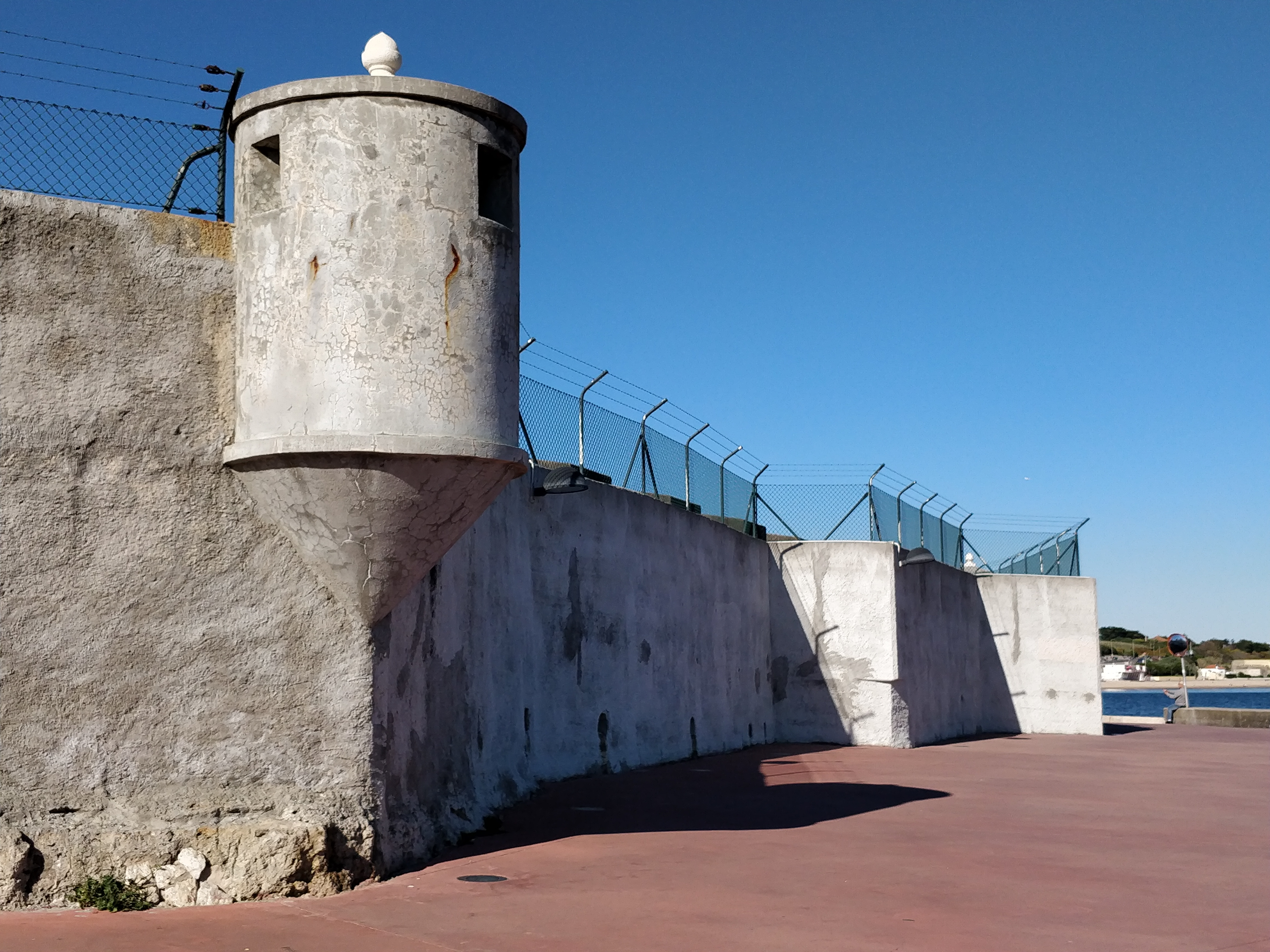 Fort of Santo Amaro do Areeiro in Oeiras, near Lisbon, Portugal